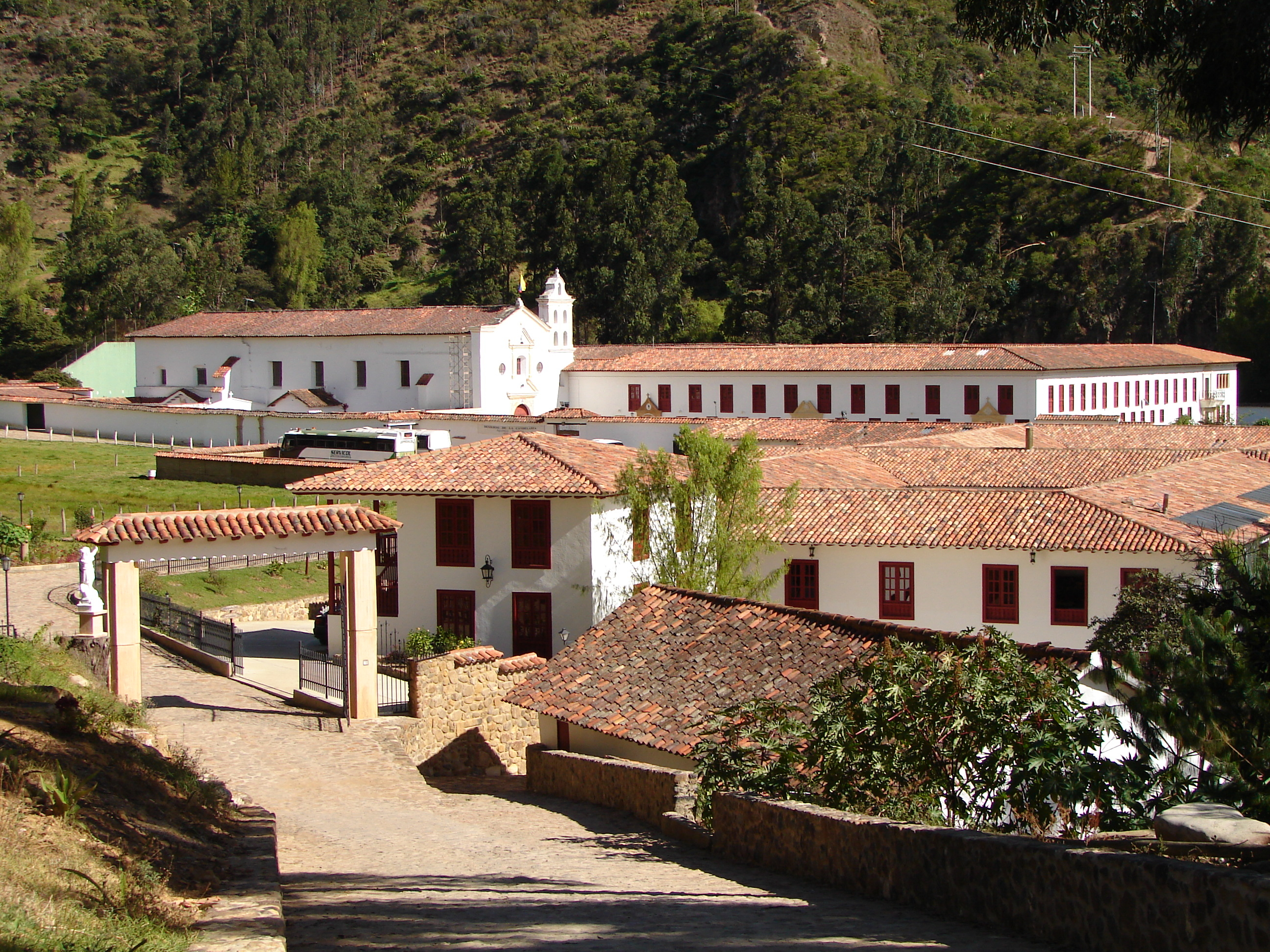 Monasterio del Desierto de la Candelaria.